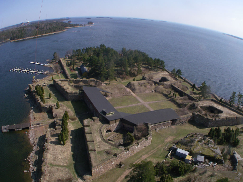 Svartholma fortress in Loviisa, Finland from air